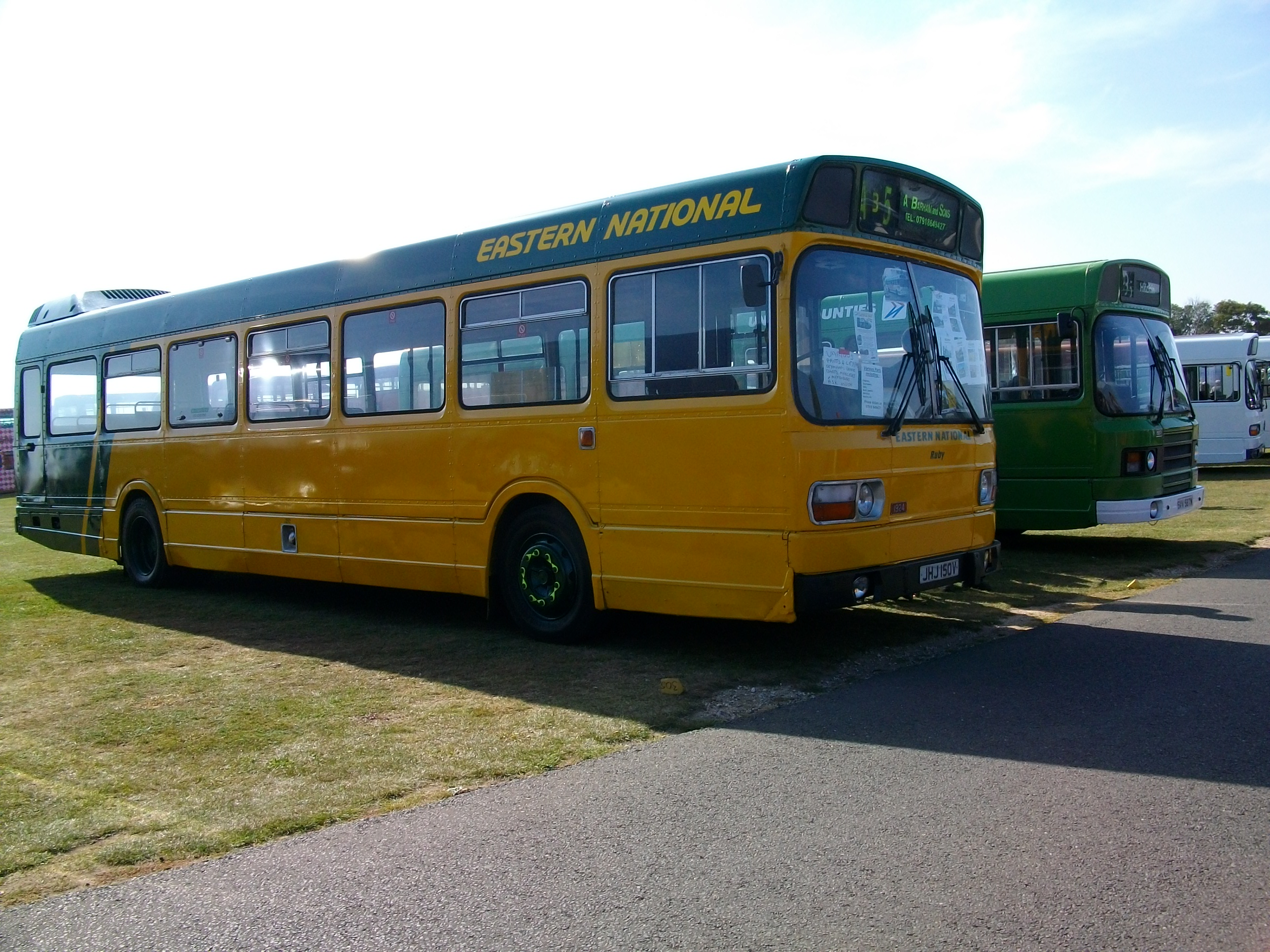 Eastern National JHJ 150V at Showbus 2009, Imperial War Museum, Duxford. Cambridgeshire.